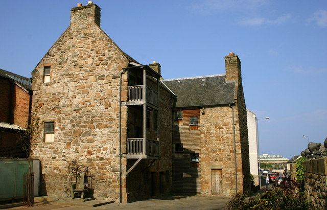 Loudon Hall Loudoun Hall is one of the oldest buildings in Ayr, late 1400's and is situated in the Boat Vennel, which is near the bottom of the High Street. It was built for a James Tait, wealthy merchant who traded with European countries. In the 16th Century, it became the townhouse for the Campbells of Loudoun, the heridary sheriffs of Ayr.